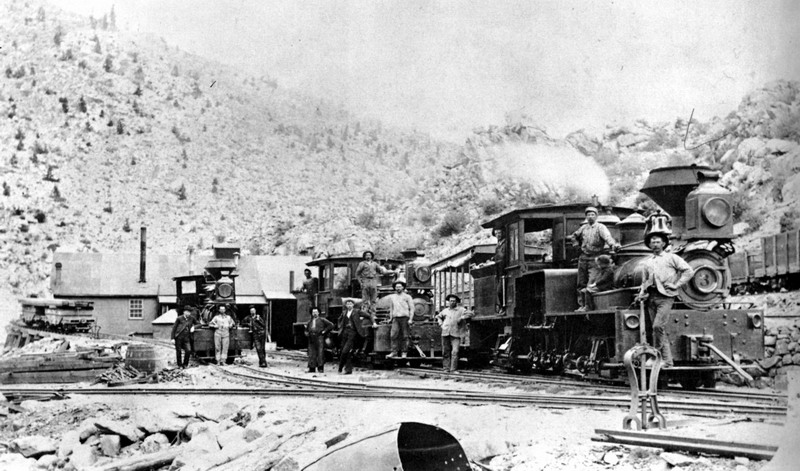 Gilpin Tram